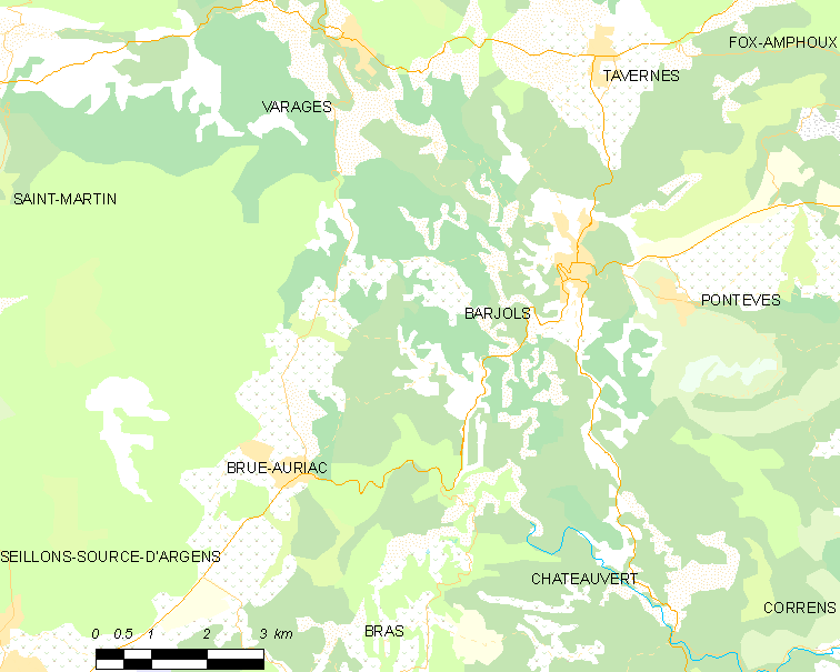 Map of French municipality Barjols